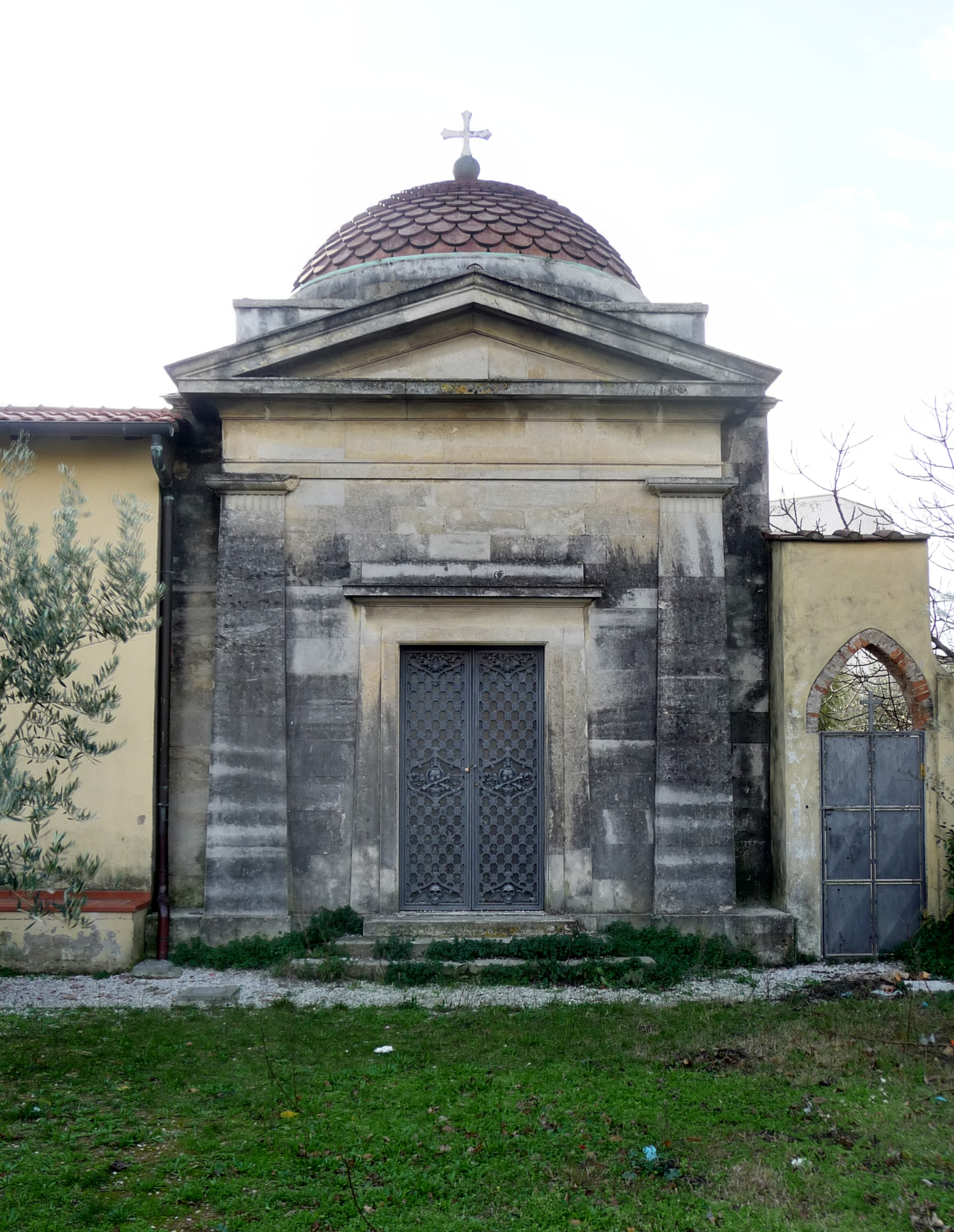 Cappella de Larderel, Livorno, Italy